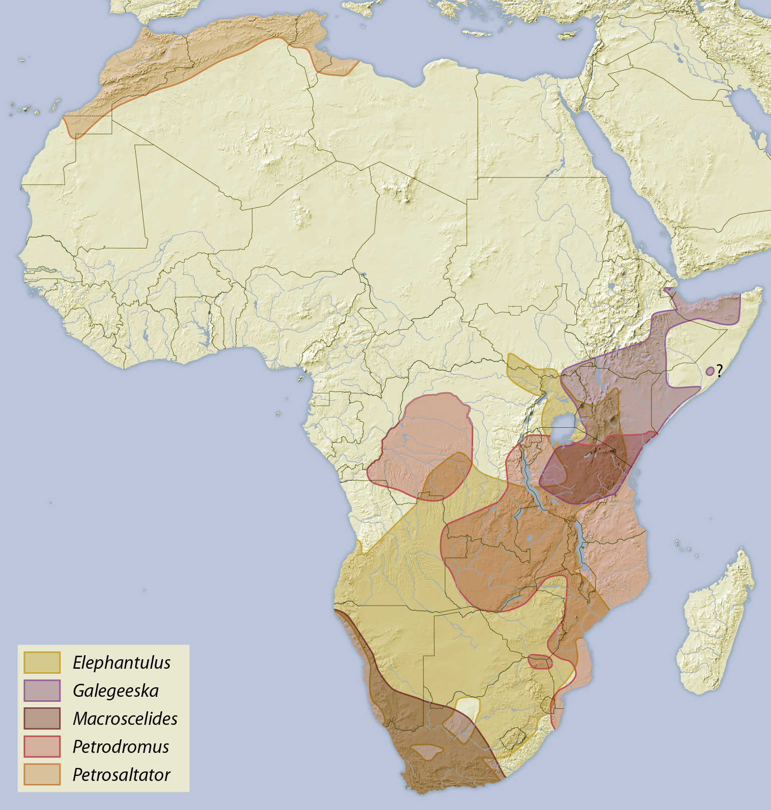 Distribution map of the Elephant shrews